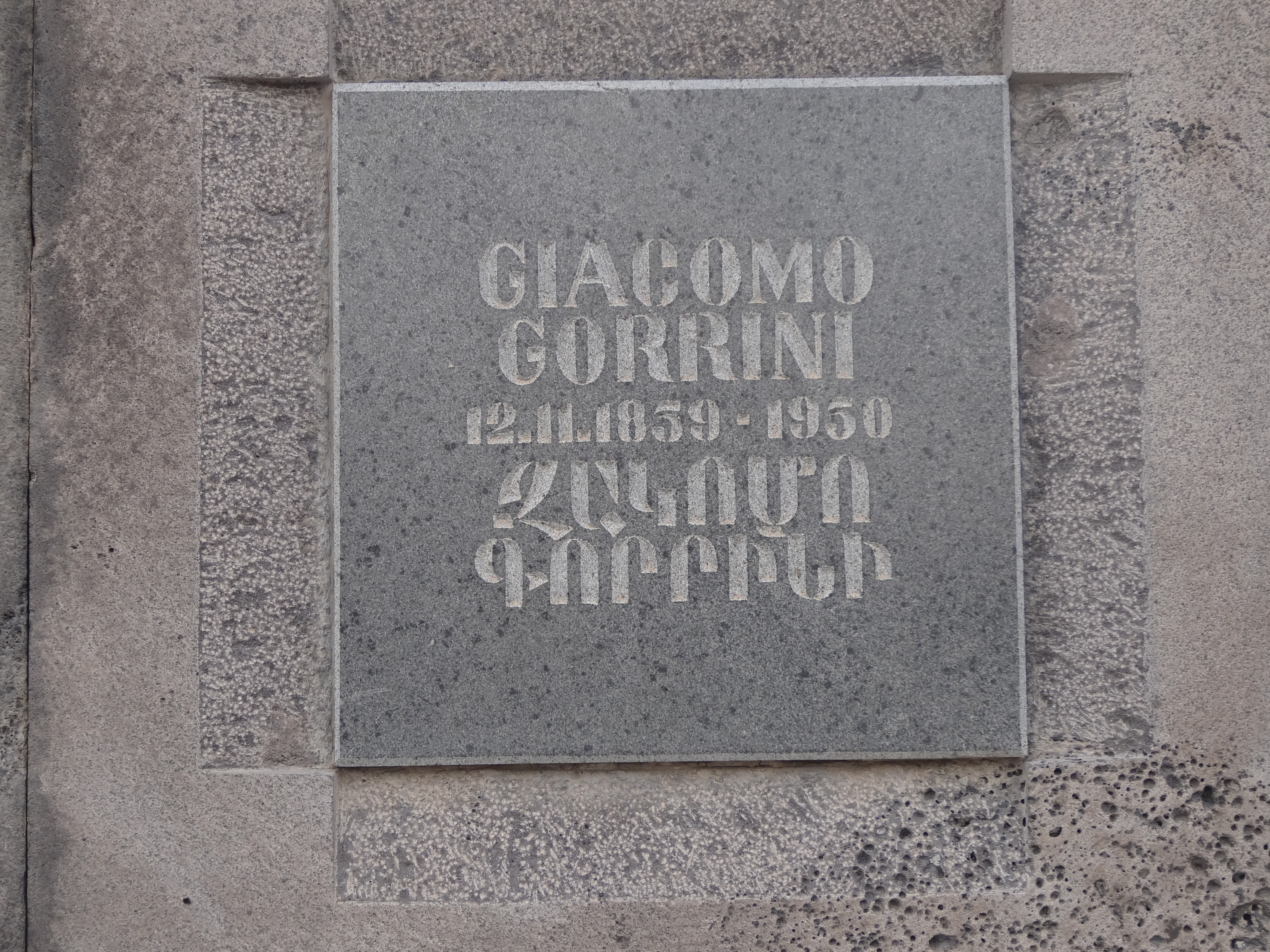 Plaque at Tsitsernakaberd for "Giacomo Gorrini", aka ՋԱԿՈՄՈ ԳՈՐՐԻՆԻ (Armenian spelling), Yerevan, Armenia